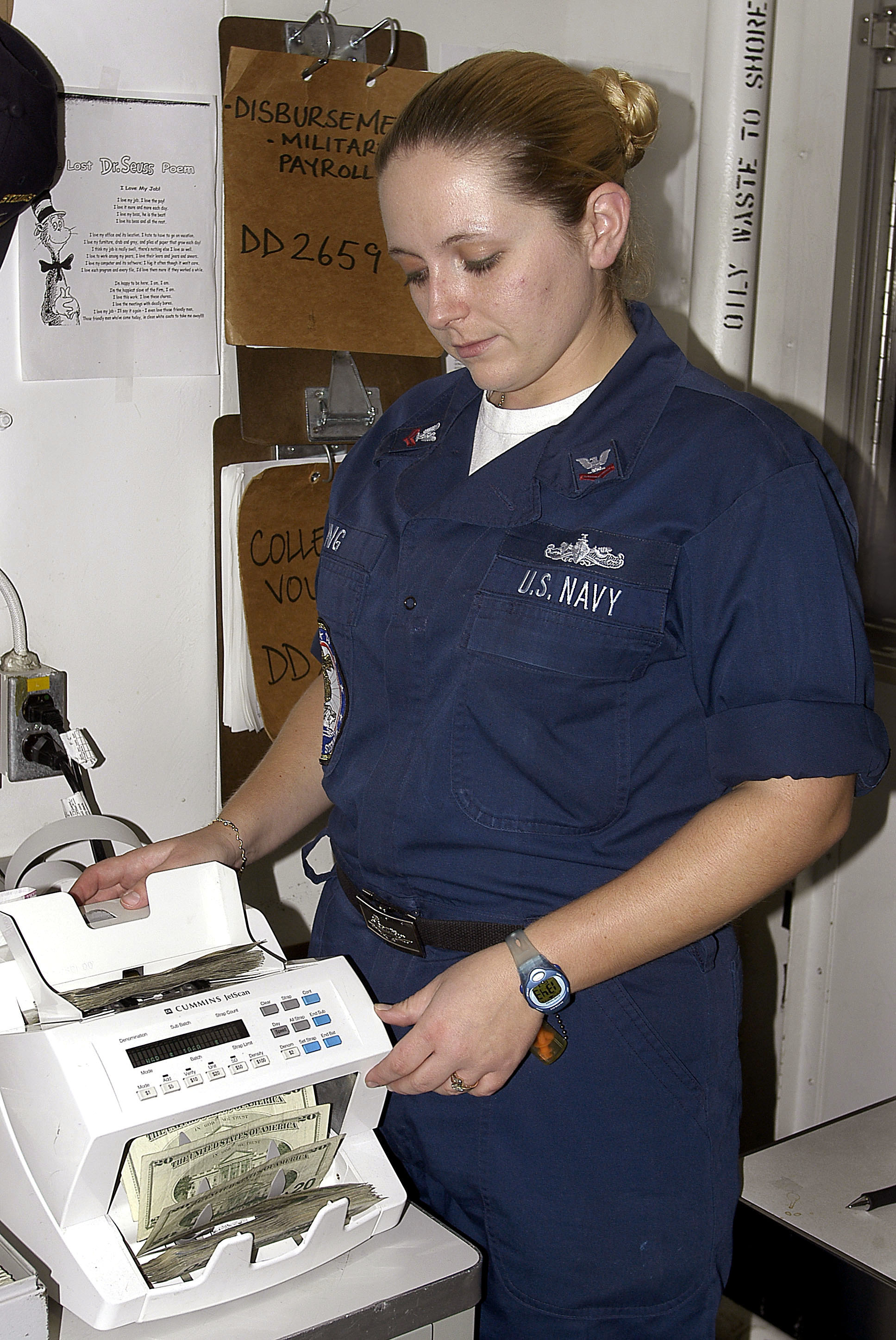 Northern Pacific Ocean (June 16, 2004) - Disbursing Clerk 2nd Class Danielle King of Newport News, Va., electronically counts money in the disbursing office aboard USS John C. Stennis (CVN 74). Stennis and embarked Carrier Air Wing Fourteen (CVW-14) are currently at on a regularly scheduled deployment. Stennis is also one of seven aircraft carriers involved in Summer Pulse 2004. Summer Pulse 2004 is the simultaneous deployment of seven aircraft carrier strike groups (CSGs), demonstrating the ability of the Navy to provide credible combat power across the globe, in five theaters with other U.S., allied, and coalition military forces. Summer Pulse is the Navy’s first deployment under its new Fleet Response Plan (FRP). The Strike Group is conducting a scheduled training exercise followed by overseas pulse operations. U.S. Navy photo by Photographer's Mate Airman Apprentice Leah Gaines (RELEASED) For more information go to